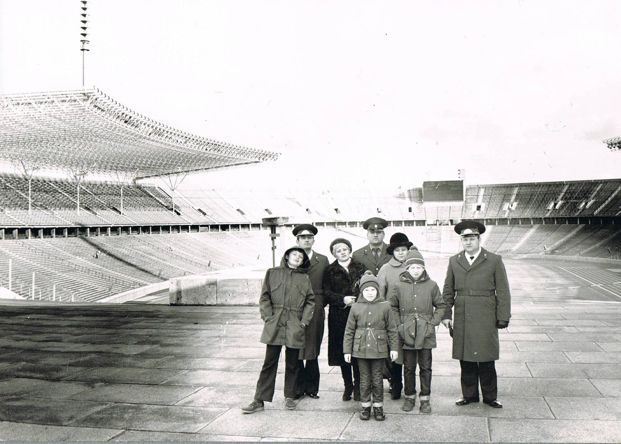 Olympic Stadium (Berlin).1980